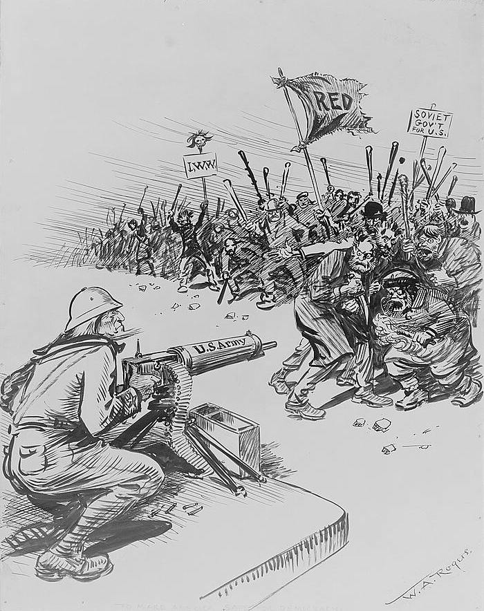 US Army machine gunner holds of hordes of Reds and Wobblies